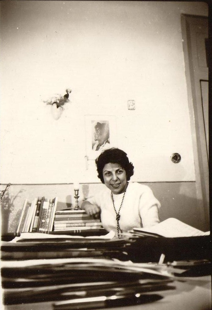 Tusi Haeri